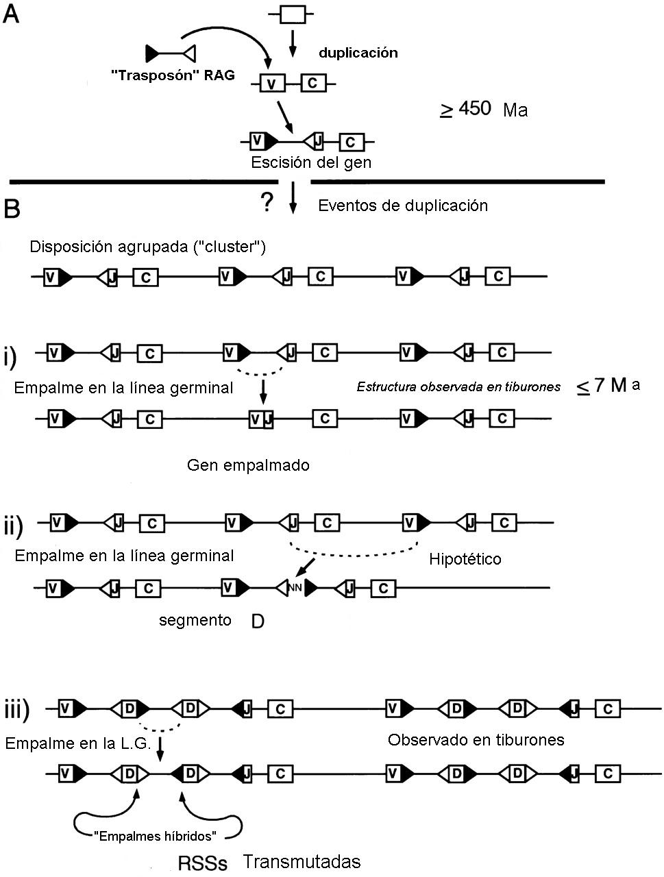 Postulated intermediates in the molecular evolution of the Ig and TCR loci.